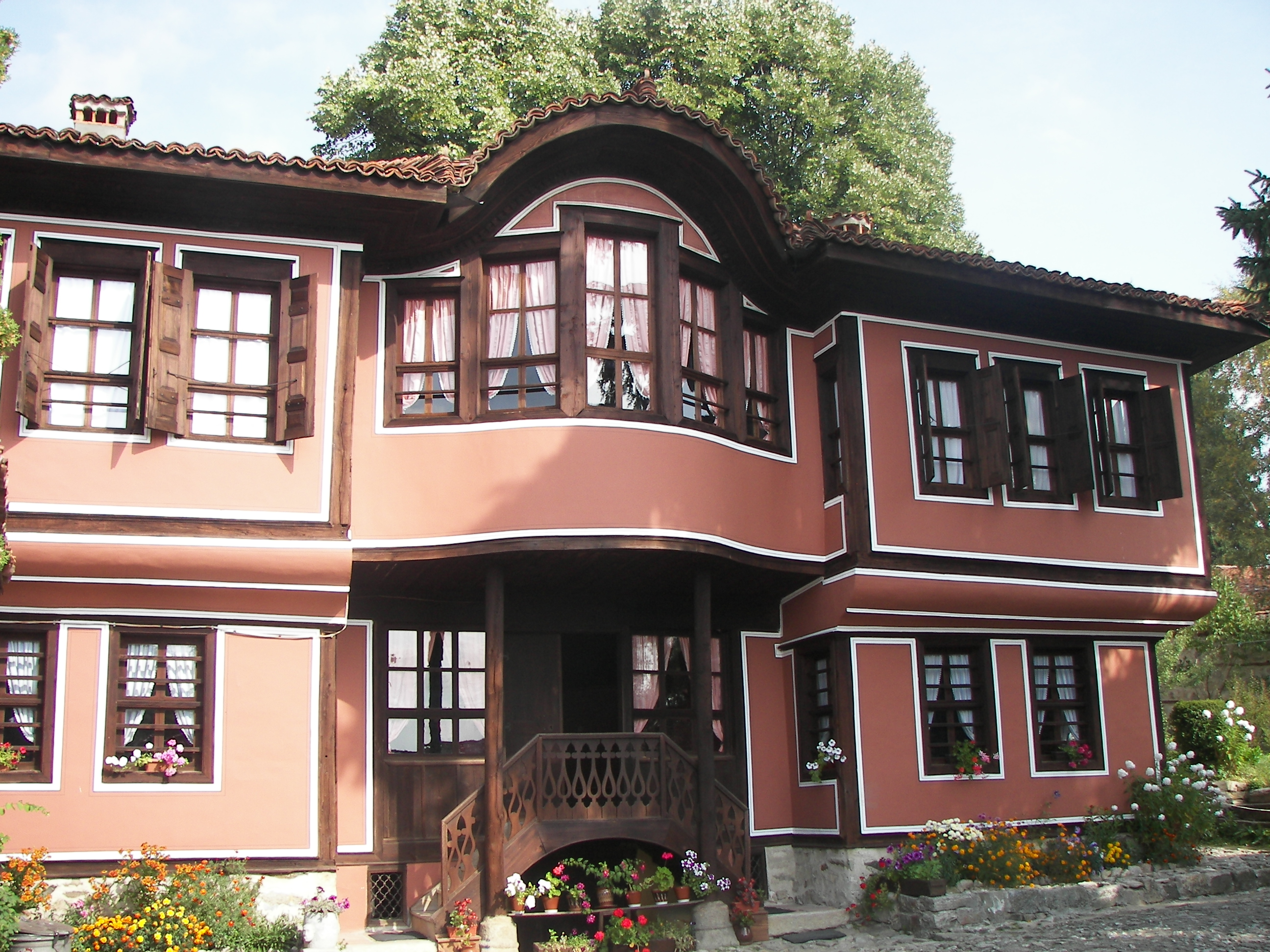 Koprivshtica